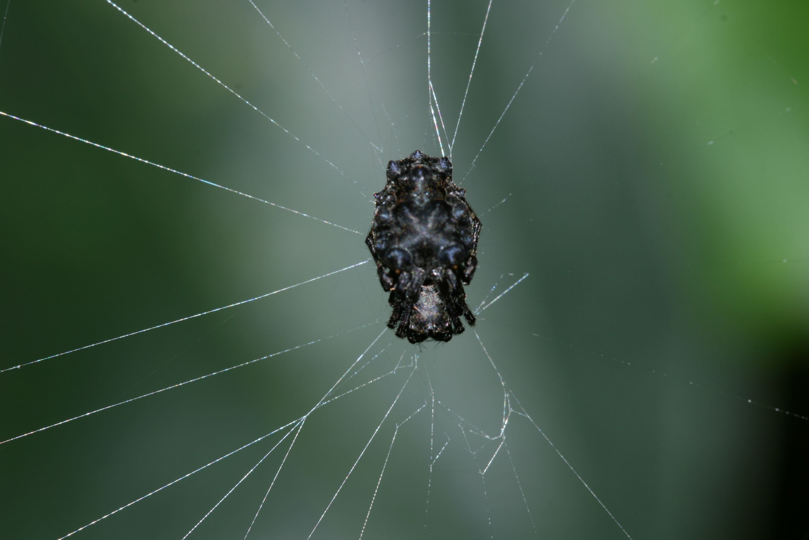 photo of a spider